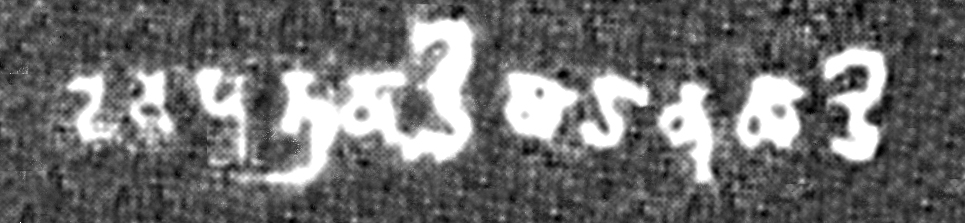 Daivaputra Shaahi Shaahaanu Shaahi